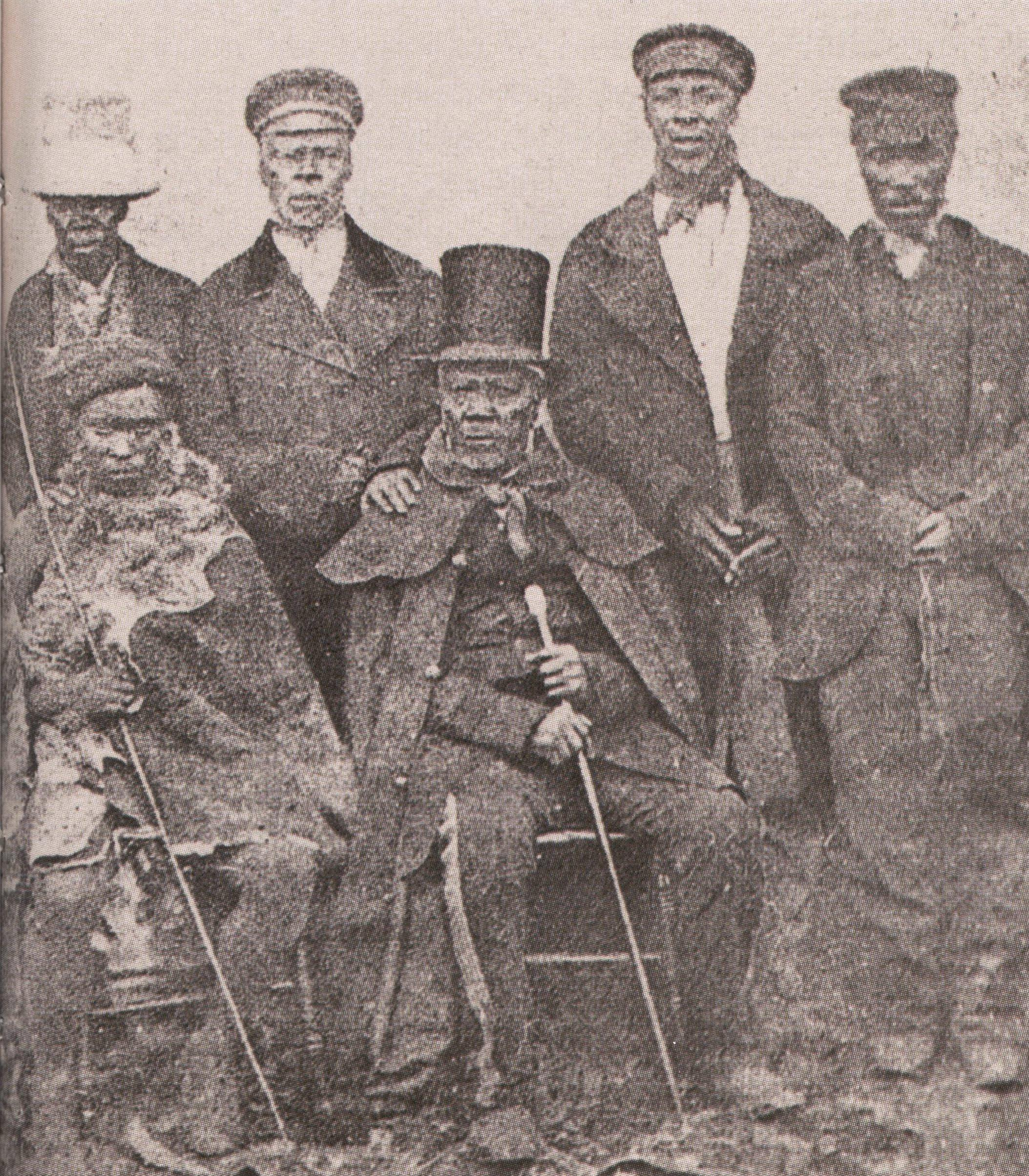 King Moshoeshoe or Moshesh of the Basotho people of Lesotho. Photo from the Nineteenth Century.